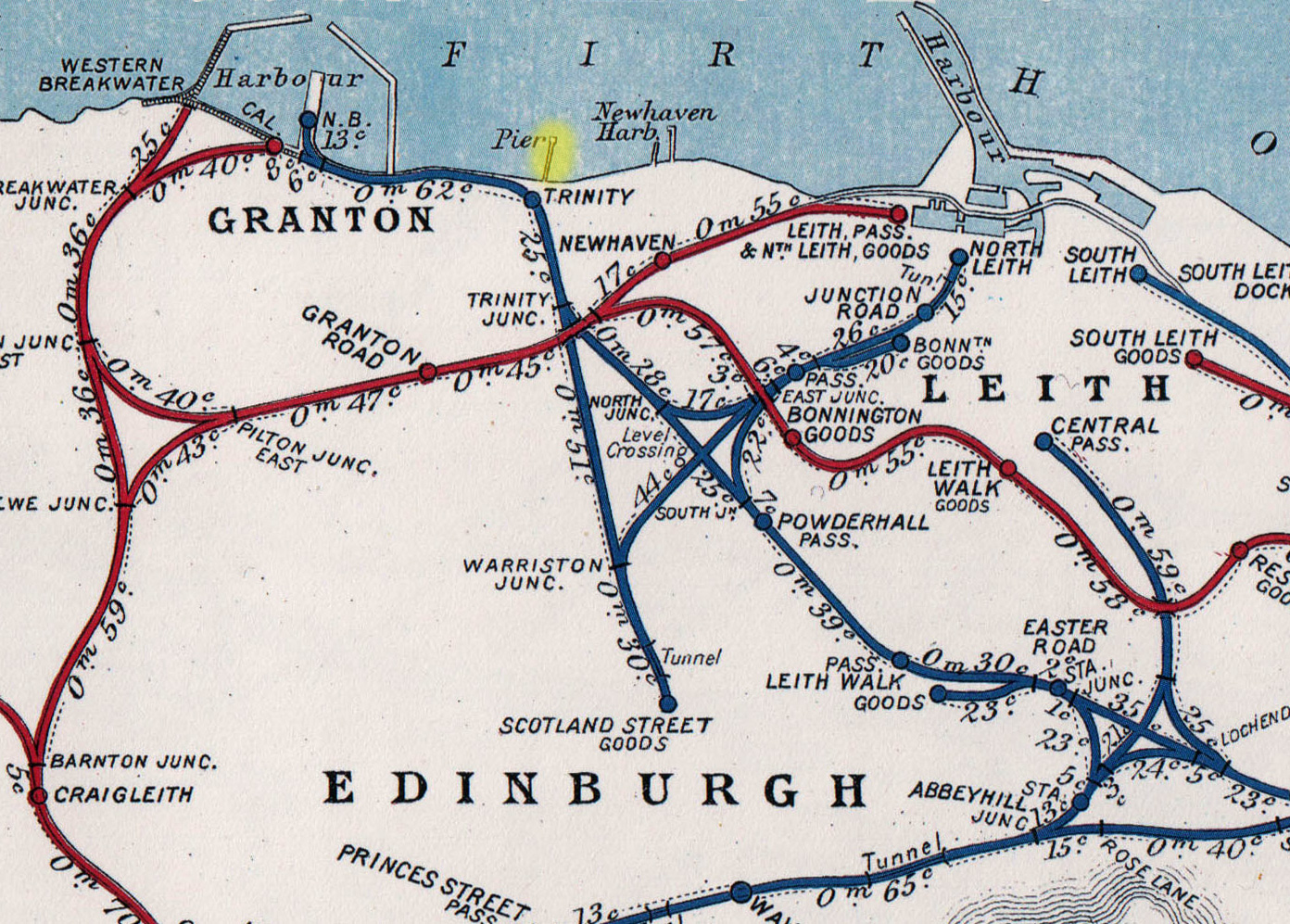 Cropped version of old railway map, with Trinity Chain Pier highlighted in yellow